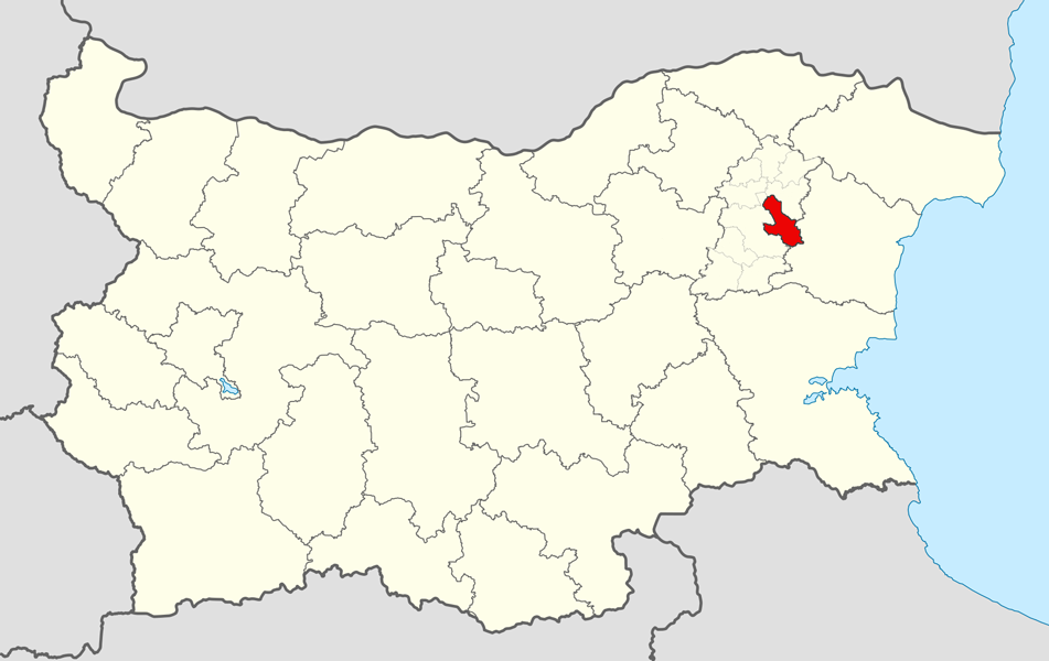 Location map of Kaspichan Municipality within Bulgaria and Shumen Province. Equirectangular projection, N/S stretching 130 %. Geographic limits of the map: N: 44.4° N S: 41.1° N W: 22.1° E E: 28.9° E